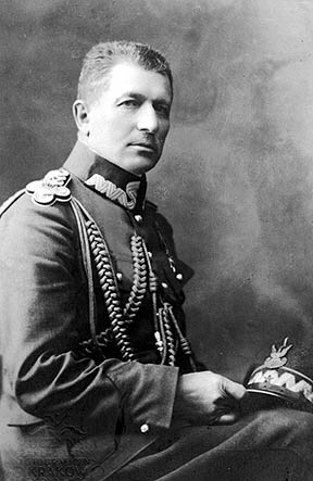 Franciszek Latinik in 1919.